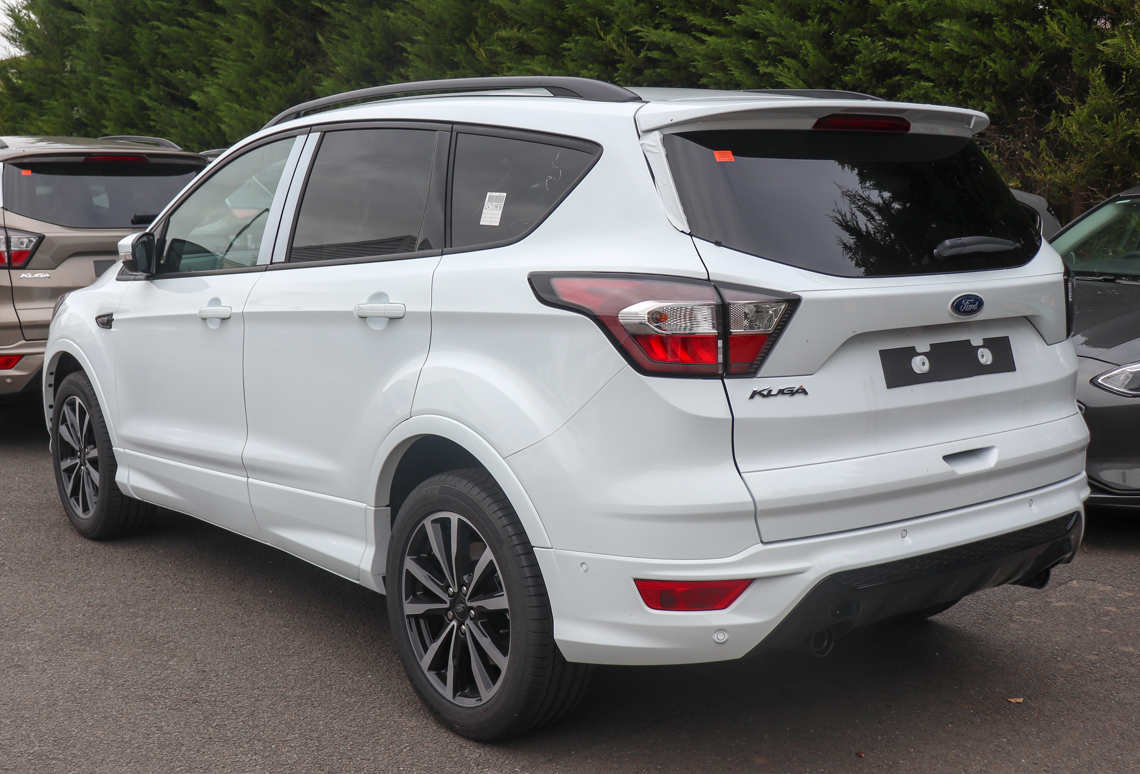 2018 Ford Kuga ST-Line Rear Taken in Leamington Spa